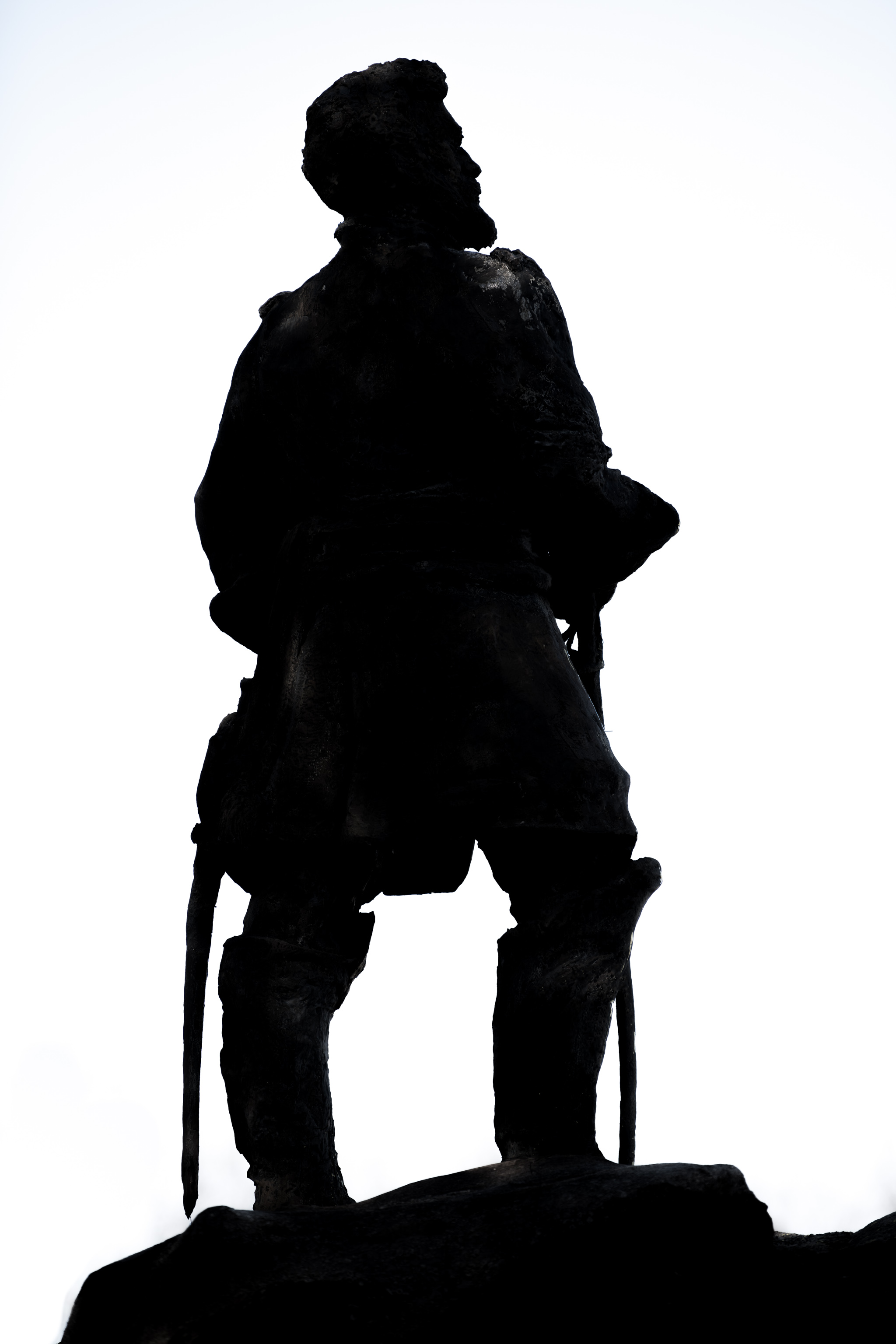 A life-size statue of Major General George Henry Thomas Statue creation: 1999 Artist: sculptor Rudy Ayoroa, deceased Place: Civil War Park, Lebanon, Kentucky